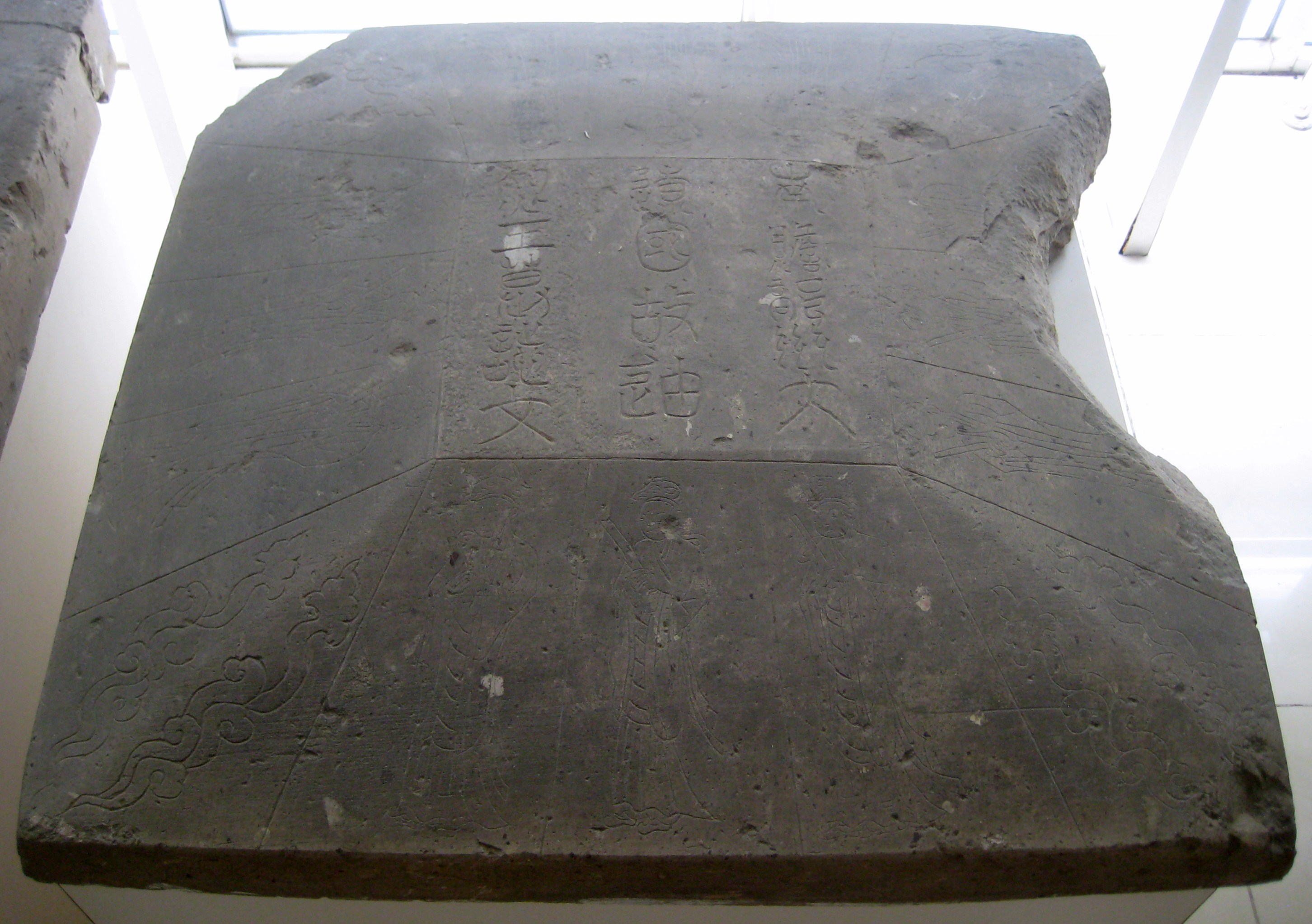 Stone cover for the memorial tablet of Yelü Dilie 耶律迪烈 (1026-1092), with a title inscription in three lines in Chinese seal script characters, and twelve figures representing the twelve zodiacal animals on the four sides. The underside has 9 columns of Small Khitan characters, continuing the inscription on the associated memorial tablet. 89 × 89 × 7.5 cm. Liao Dynasty (916-1125). From a tomb at Gahaitu Township, Jarud Banner, Inner Mongolia that was excavated in 1995.